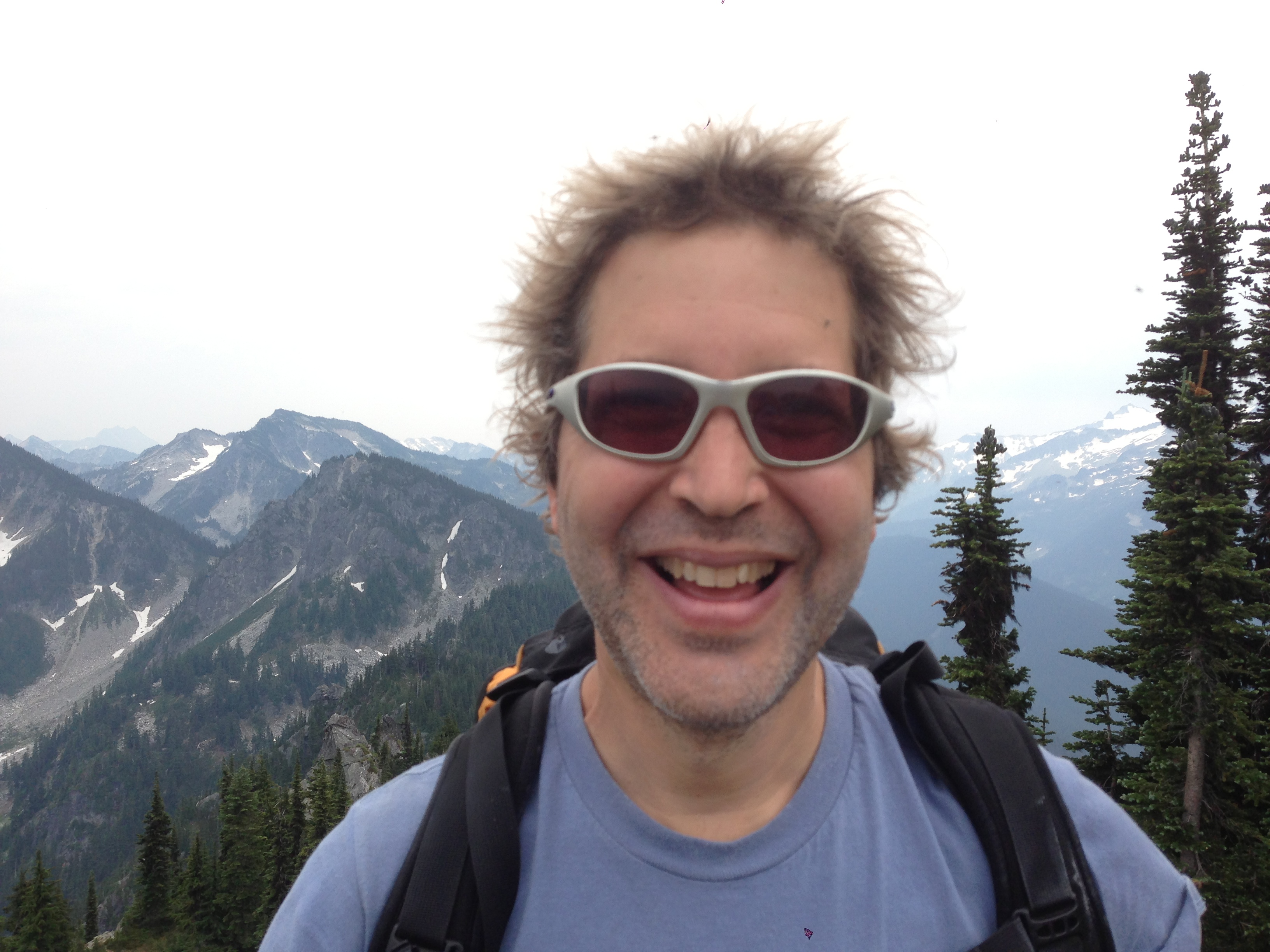 David Baker (American Biochemist) at the summit of Spark Plug Mountain, Washington